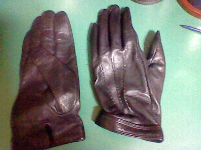 Leather gloves and gloves for formal dresses